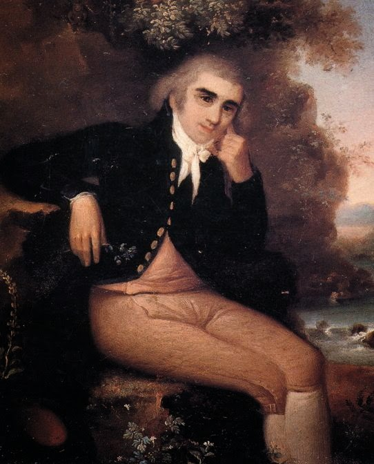 Painting of the Italian naturalist Giambattista Brocchi (1772 - 1826). Unknown artist, yet clearly passed away long ago enough to consider this work in the public domain.